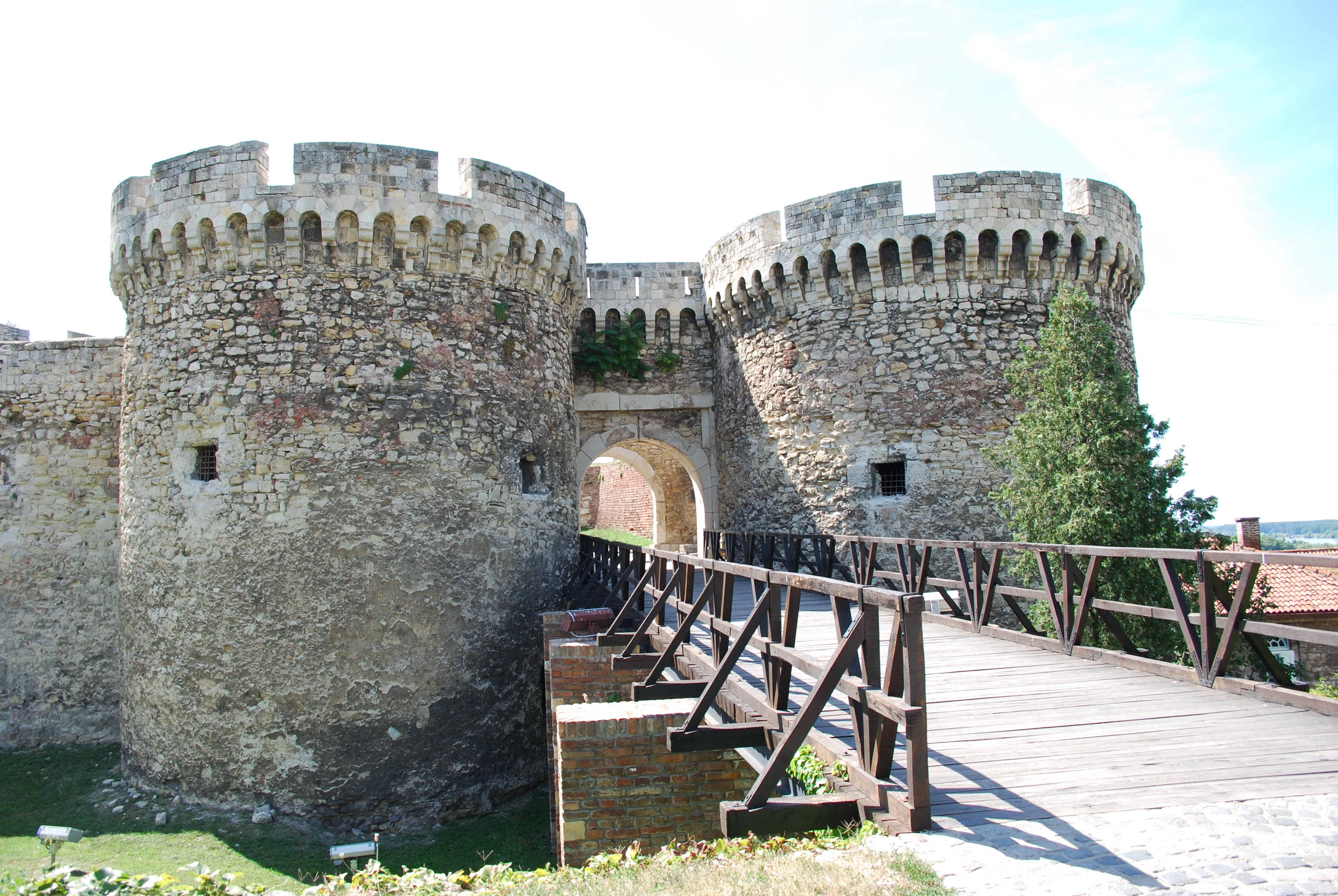 Kalemegdan is a fortress and park in an urban area neighborhood of Belgrade, the capital of Serbia. It is located in Belgrade's municipality of Stari Grad.